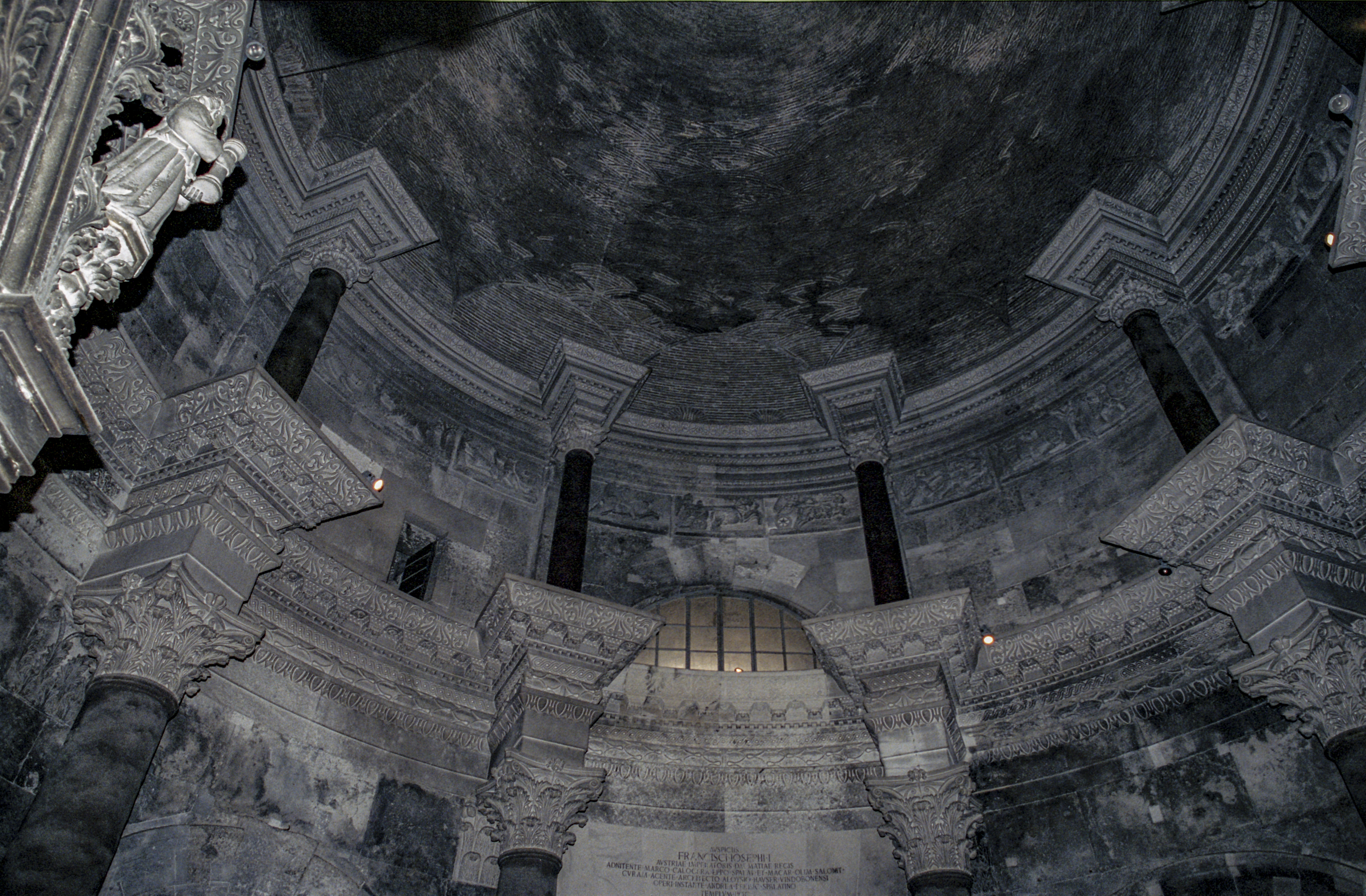 Diocletian's Palace - Diocletian's Mausoleum, Split